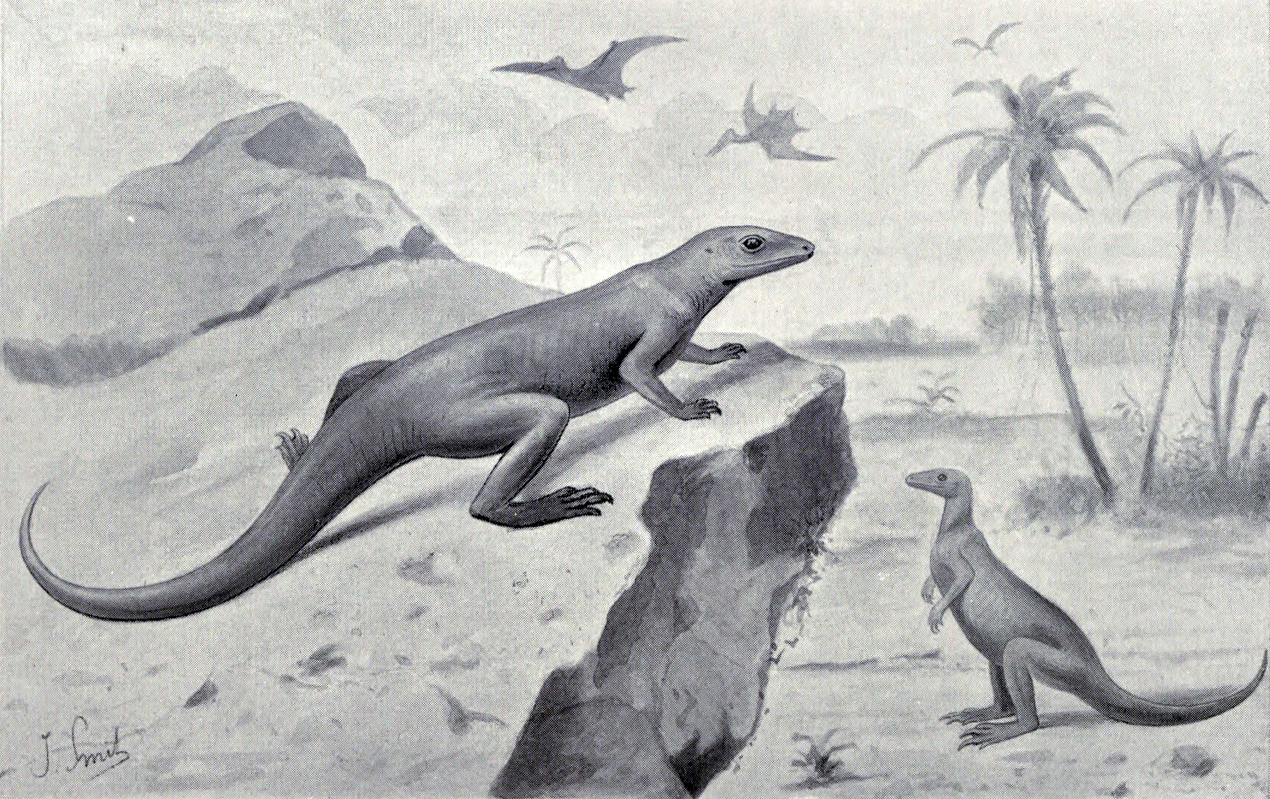 Hypsilophodon from Creatures of Other Days.